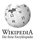 Wikipedia logo 2.0